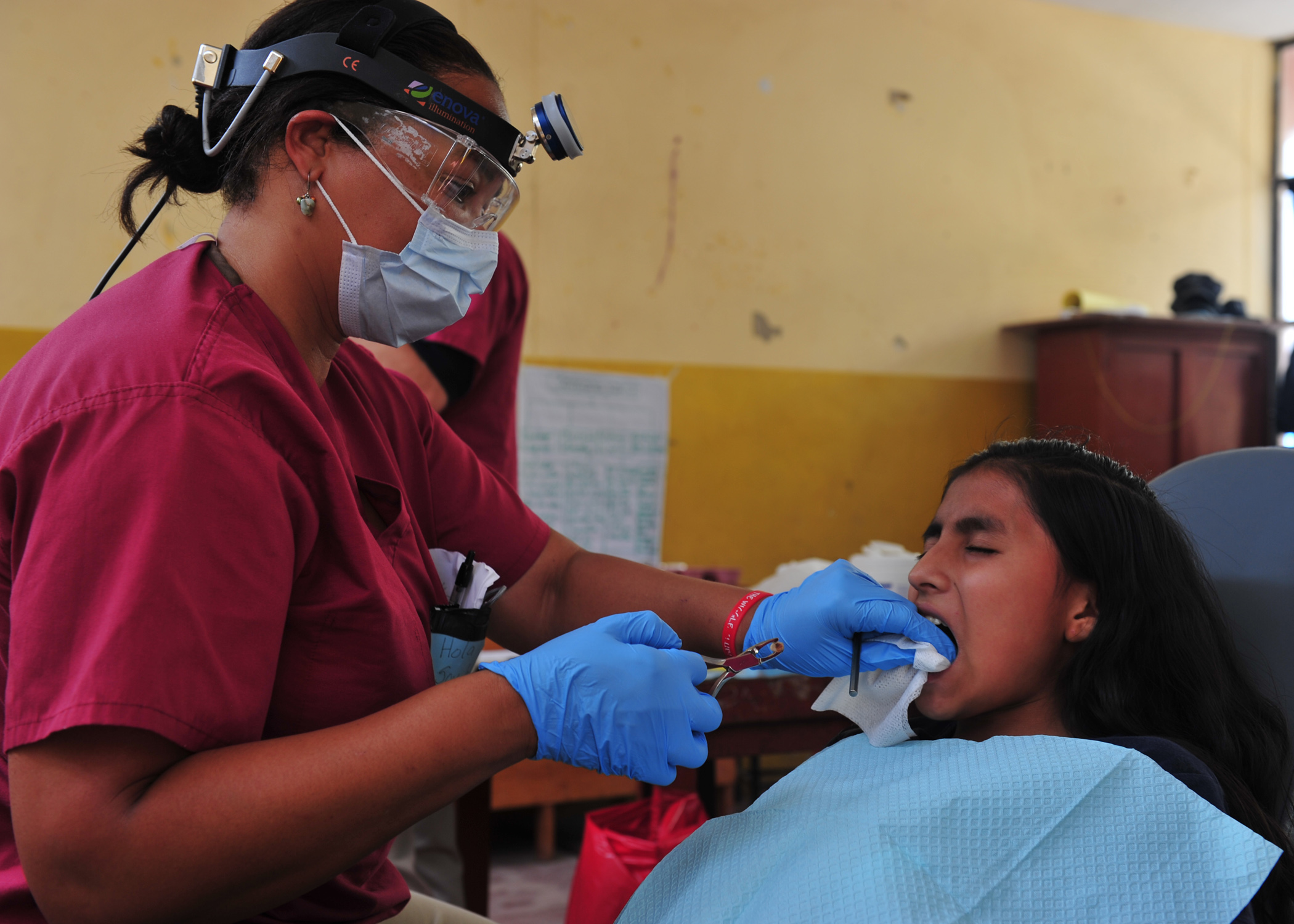 PAITA, Peru (May 1, 2011) Dr. Kimberley Gise, a volunteer from the University of California San Diego Pre-dental Society, extracts a tooth during a Continuing Promise 2011 medical community service project. Continuing Promise is a five-month humanitarian assistance mission to the Caribbean, Central and South America. (U.S. Navy photo by Mass Communication Specialist 1st Class Brian A. Goyak/Released)